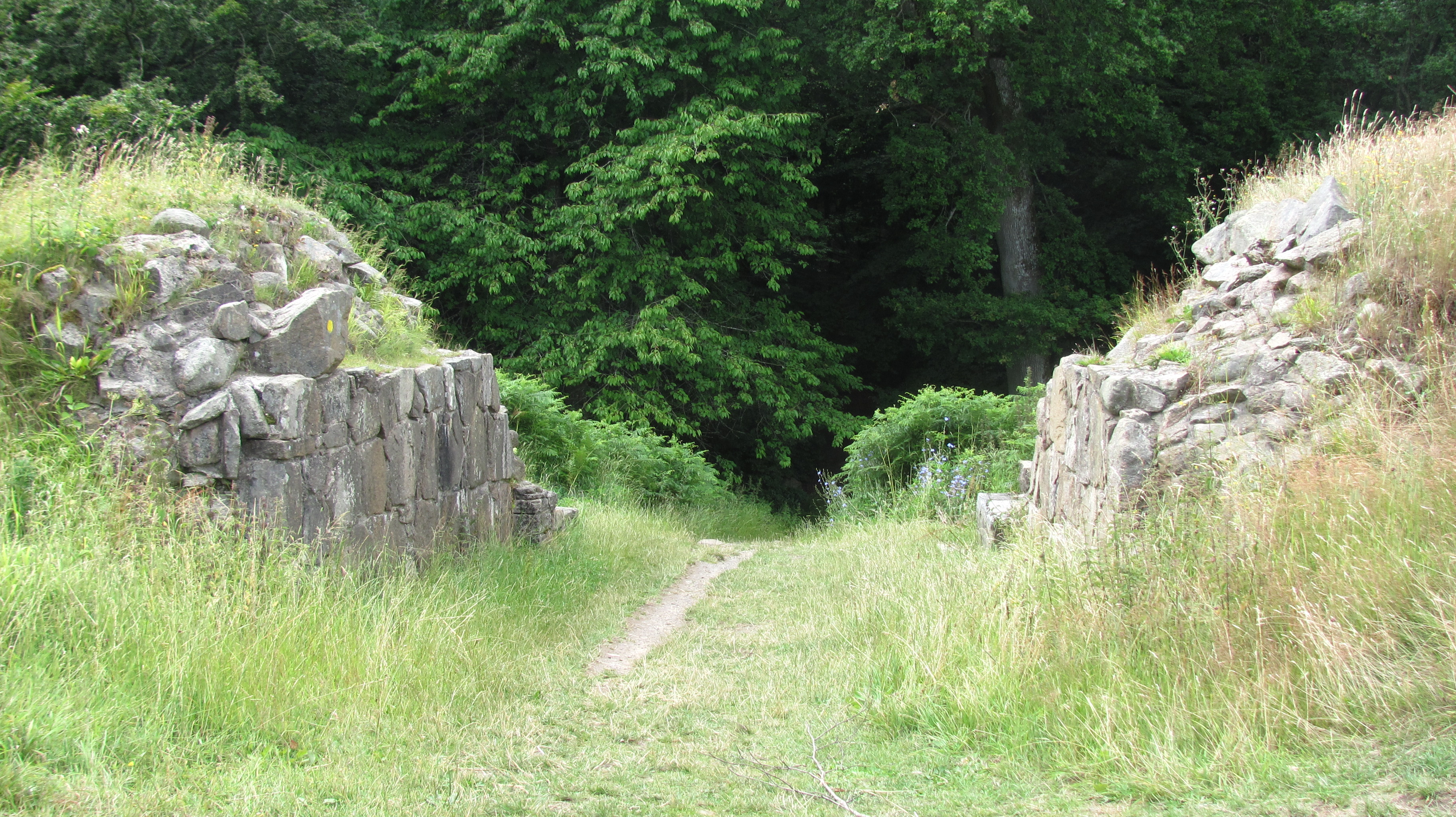 Gate of Gamleborg Castle, Bornholm, Denmark